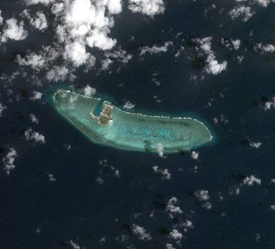 Cuarteron Reef is a coral reef of Spratly Islands.